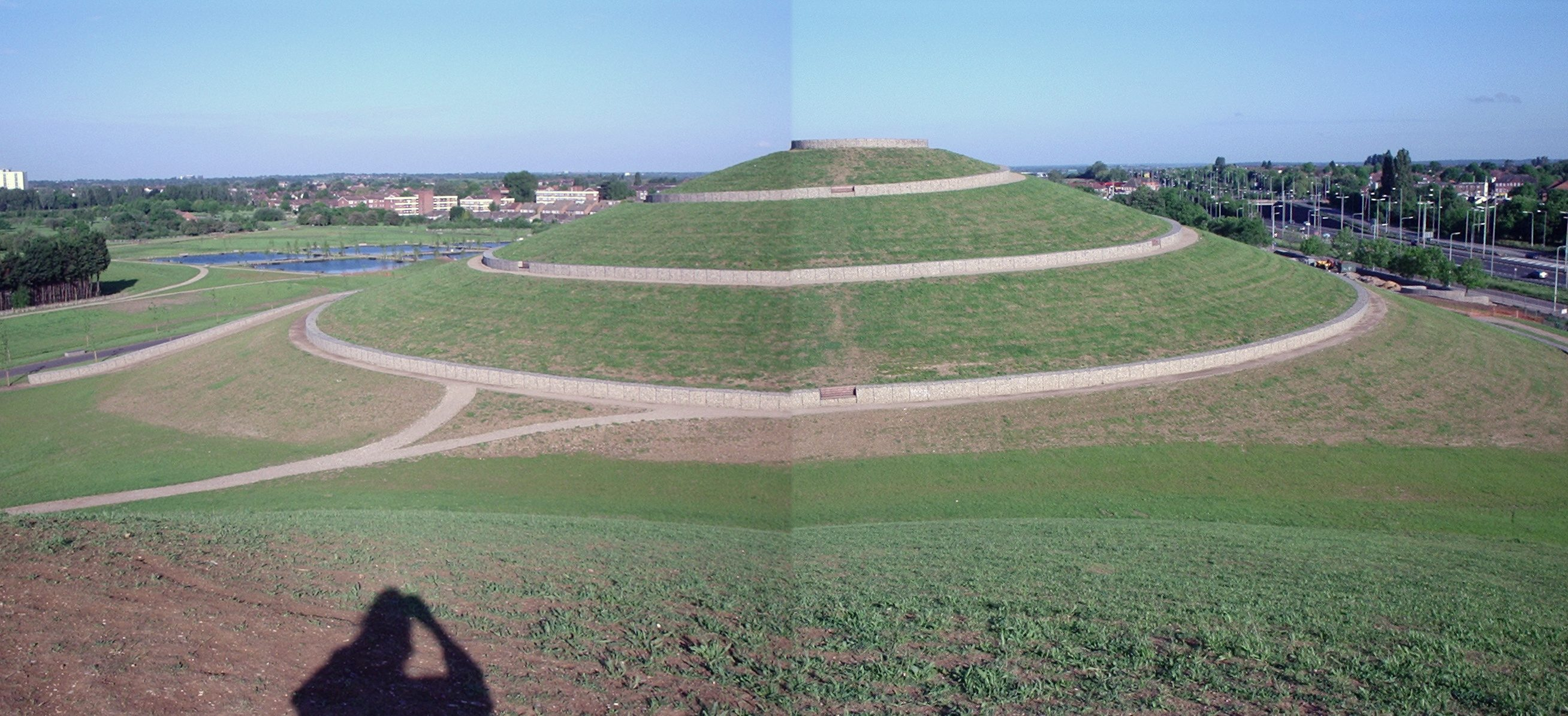 One of the litter bins with this hill visible in the background The highest of four man-made hills in Northala Fields at grid reference TQ 129 836 beside the A40 road in Northolt, London Borough of Ealing. This hill is all of 22 metres (72 ft) high. It is seen here from the "summit" of the easternmost of the hills - 18 metres (59 ft). The site makes extensive use of gabions. A long line of gabions spirals up this hill. Even the litter bins are formed as gabions! LB Ealing page BBC page